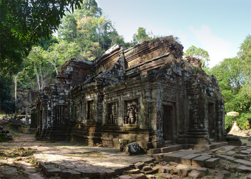 Vat Phou, Champasak Province, Laos.